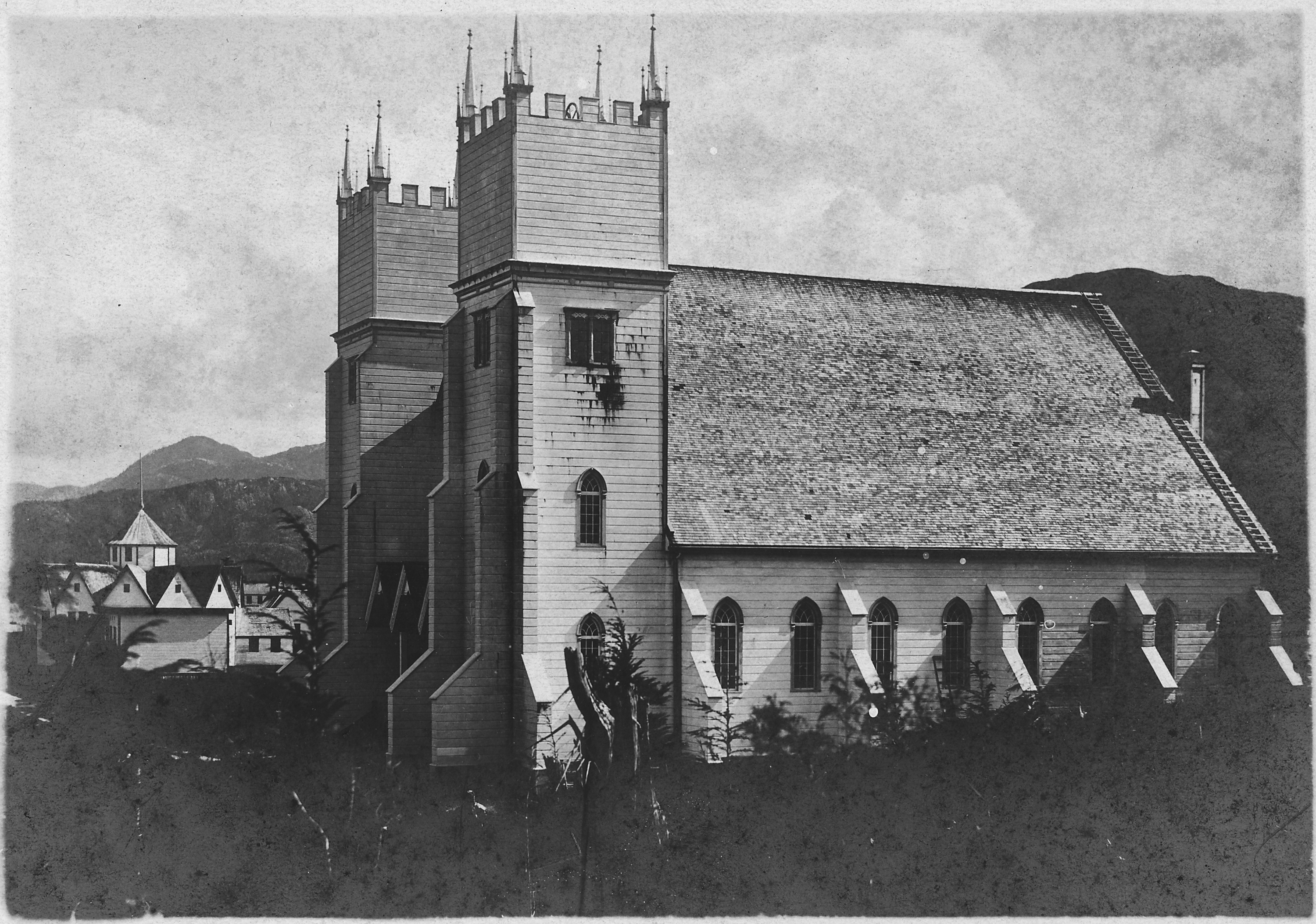 Scope and content: On reverse side: "Photo--R.N.HL, U.S.S. Perry."